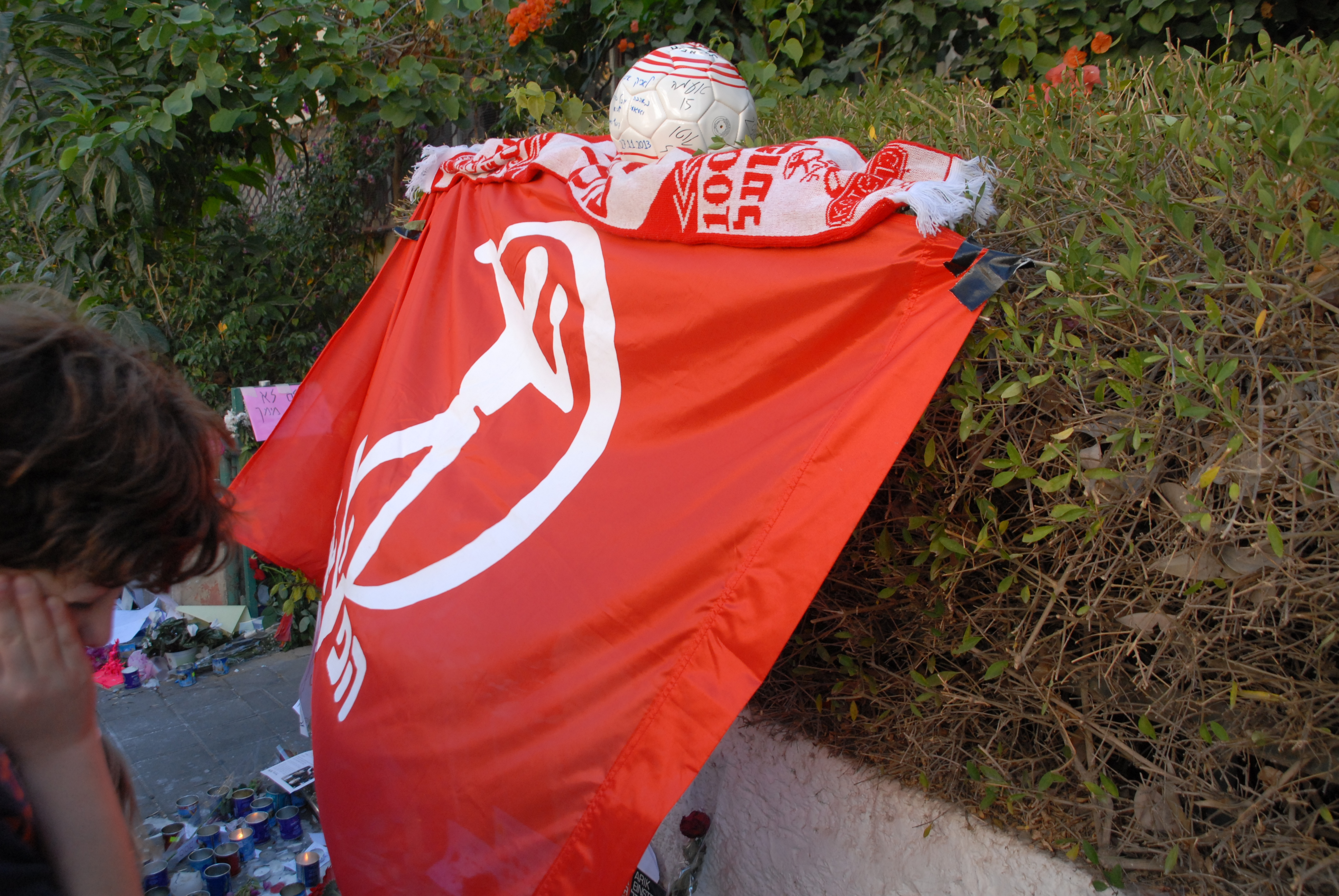 Cities in Israel